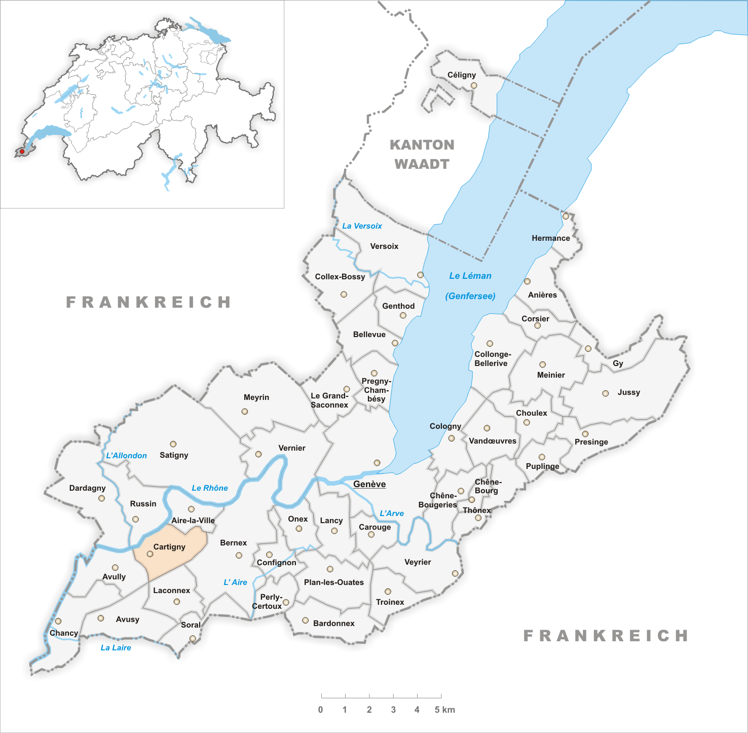 Municipality Cartigny